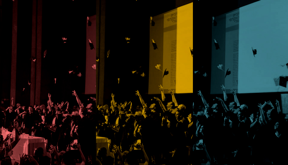 Lander Institute 2013 Graduation Ceremony